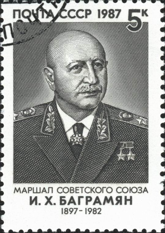 А Soviet Union stamp, Military persons of the USSR 90th Birth Anniversary of I.Kh.Bagramyan. Date of issue: 2nd December 1987. Designer: V. Nikitin Michel catalogue number: 5778. 5 K. agate. Portrait of marshal Ivan Khristoforovich Bagramyan (1897-1982).